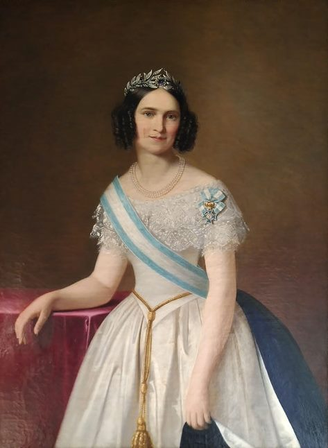 Aldegunde of Bavaria, duchess of Modena